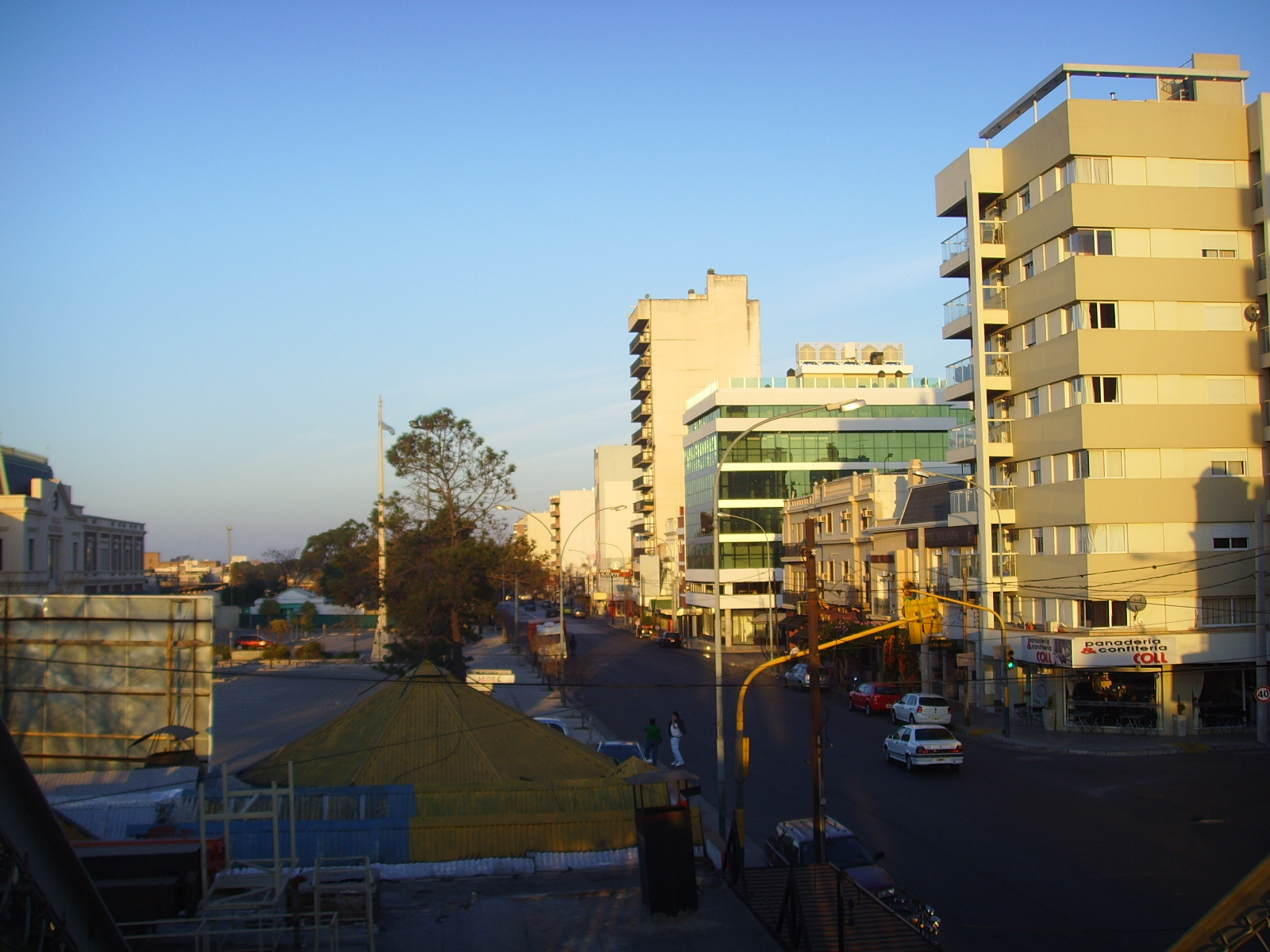 Central area of Alta Córdoba neighbourhood, Córdoba, Argentina